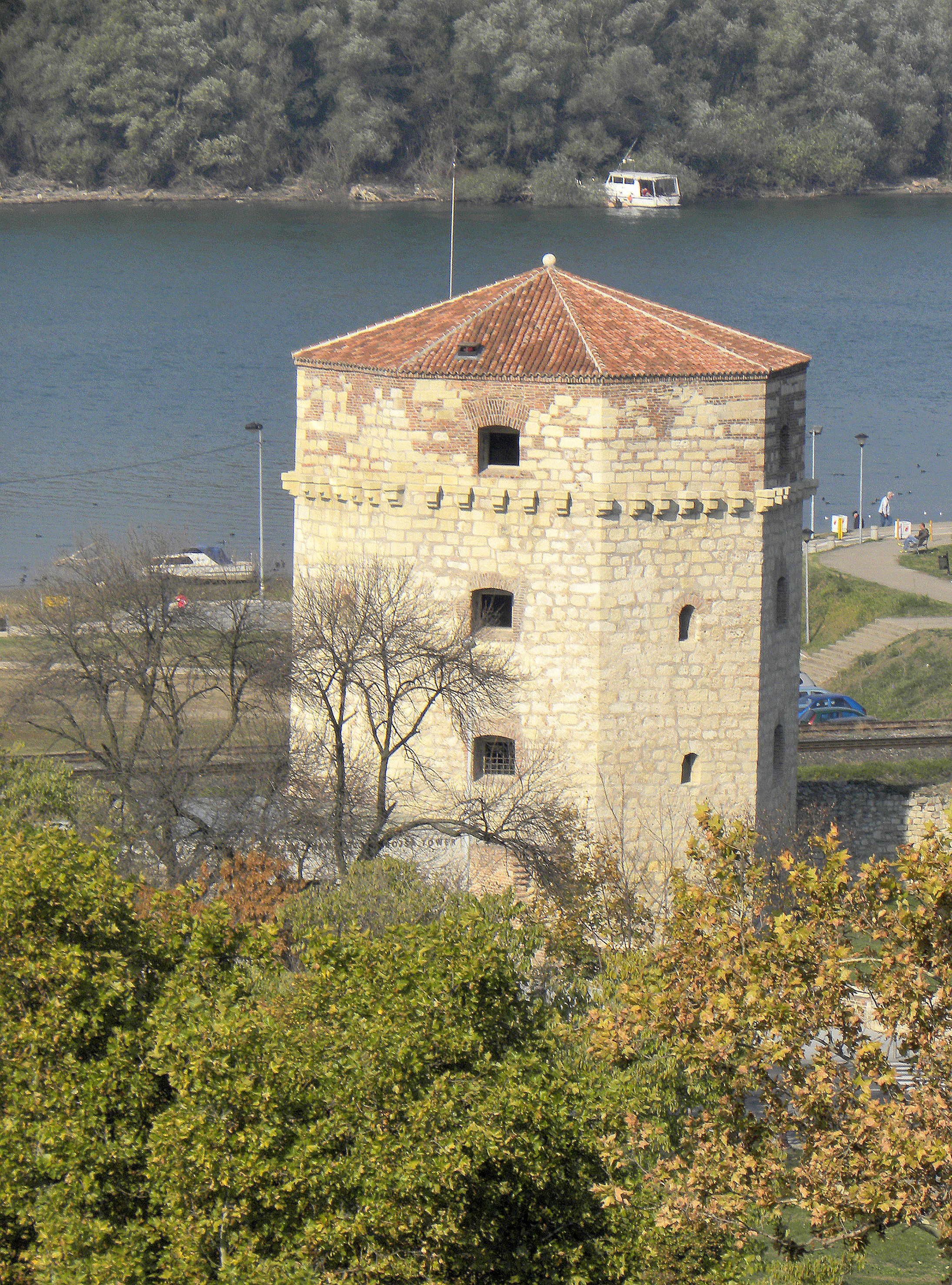 Belgrade Fortress consists of the old citadel (Upper and Lower Town) and Kalemegdan Park (Large and Little Kalemegdan) on the confluence of the River Sava and Danube, in an urban area of modern Belgrade, the capital of Serbia. It is located in Belgrade's municipality of Stari Grad. Belgrade Fortress was declared a Monument of Culture of Exceptional Importance in 1979, and is protected by the Republic of Serbia. It is the most visited tourist attraction in Belgrade, with Skadarlija being the second. Since the admission is free, it is estimated that the total number of visitors (foreign, domestic, citizens of Belgrade) is over 2 million yearly.